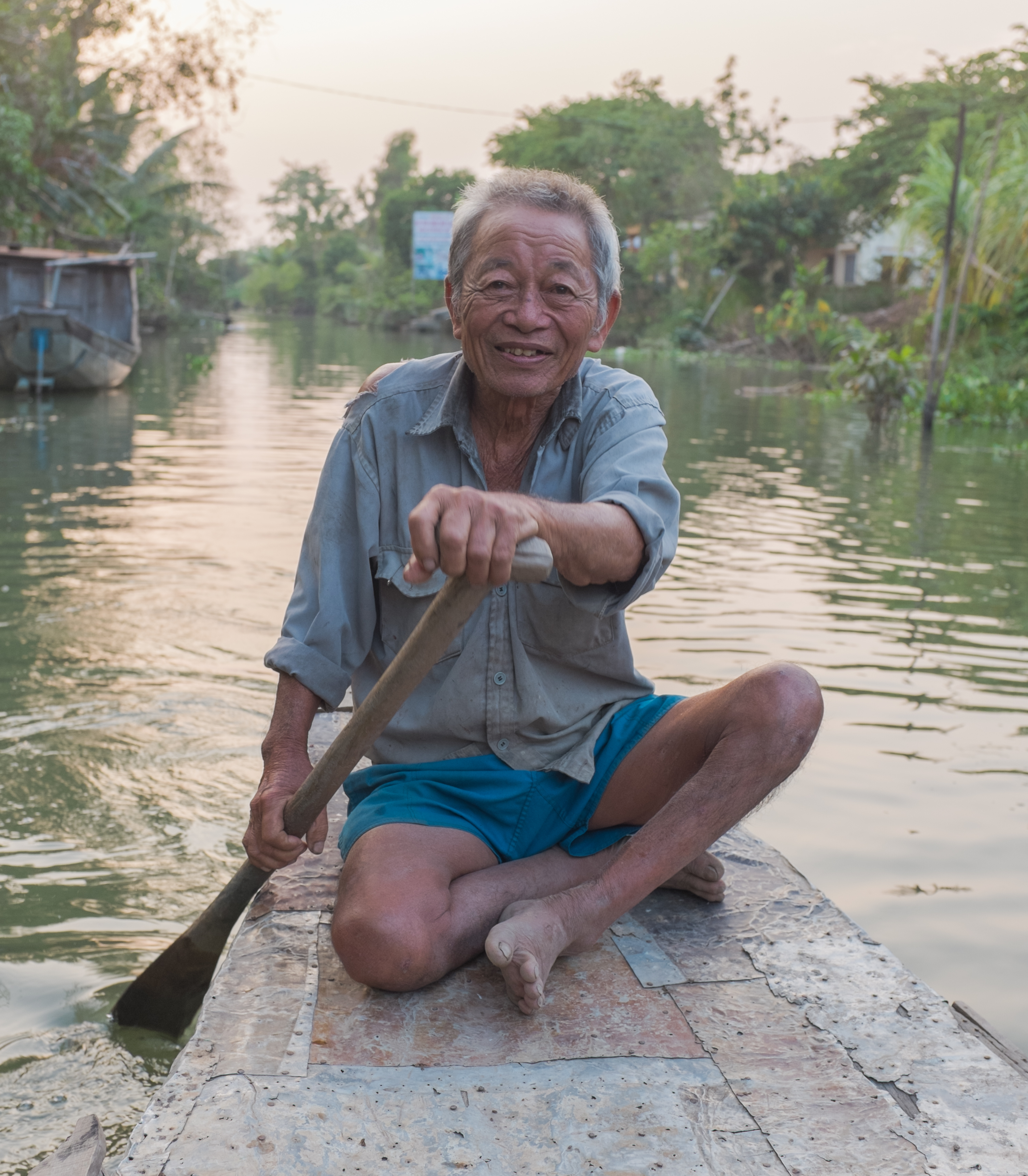 This is M. Chín Mây, 80 years old. His name means Nine Clouds in Vietnamese. He is very calm but full of energy, he has a soft and comforting voice, and he's still rockin' the paddling of his canoe. Taking people on his boat wasn't part of the plan as he doesn't operate any business anymore but he kindly agreed on taking us for a small trip. He never left his island called An Bình, in Vietnam, but he likes walking and asked me if I came from France by foot. He was also wondering how far California was—he would like to walk there. Once he knew that I mainly flew, he was concerned about people having enough air in a plane. The loveliest.